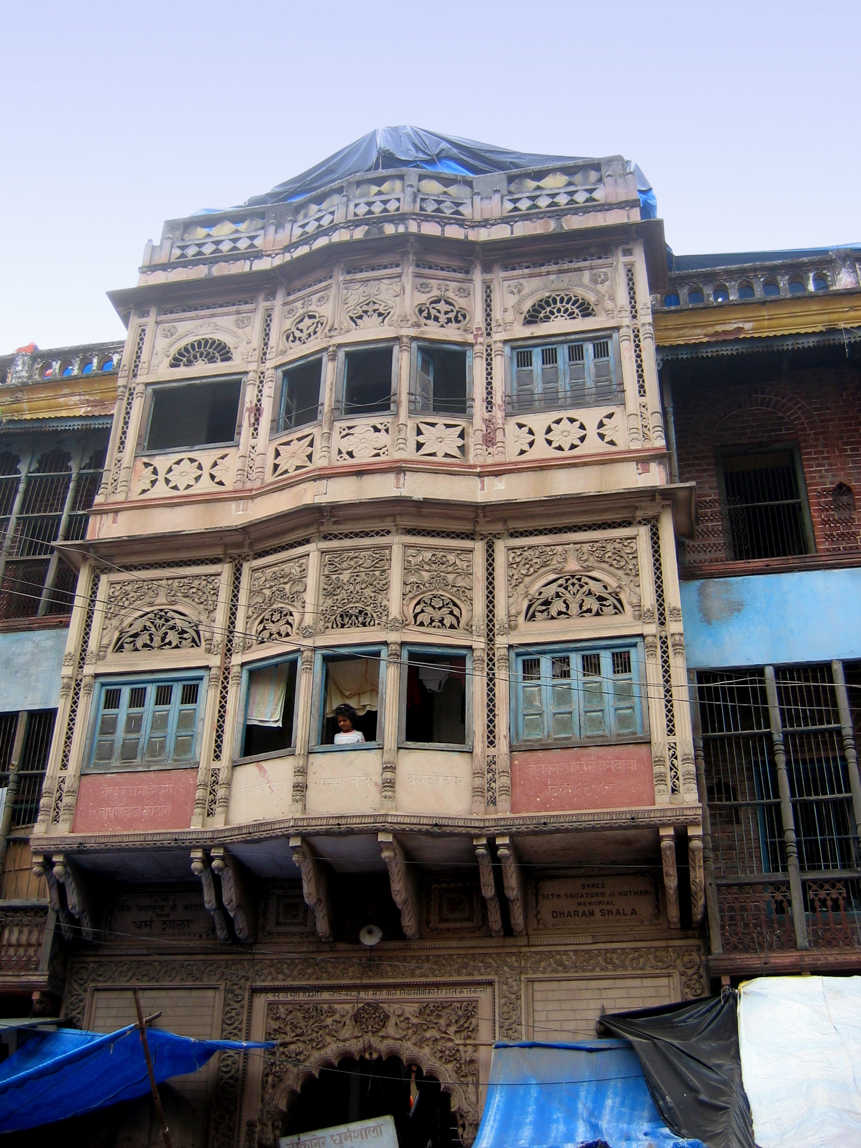 Seth Sadasukh Gambhir Chand Kothari Dharamshala, Upper Road, Haridwar. Established in 1822, or Vikram Samvat. 1978 (Hindu calendar) as mentioned on the stone facade. Notable for its craftsmanship in sandstone, typical of Rajasthan; built by a wealthy businessman from Bikaner, Rajasthan, as per the custom in olden days to have an establishment at an holy pilgrimage